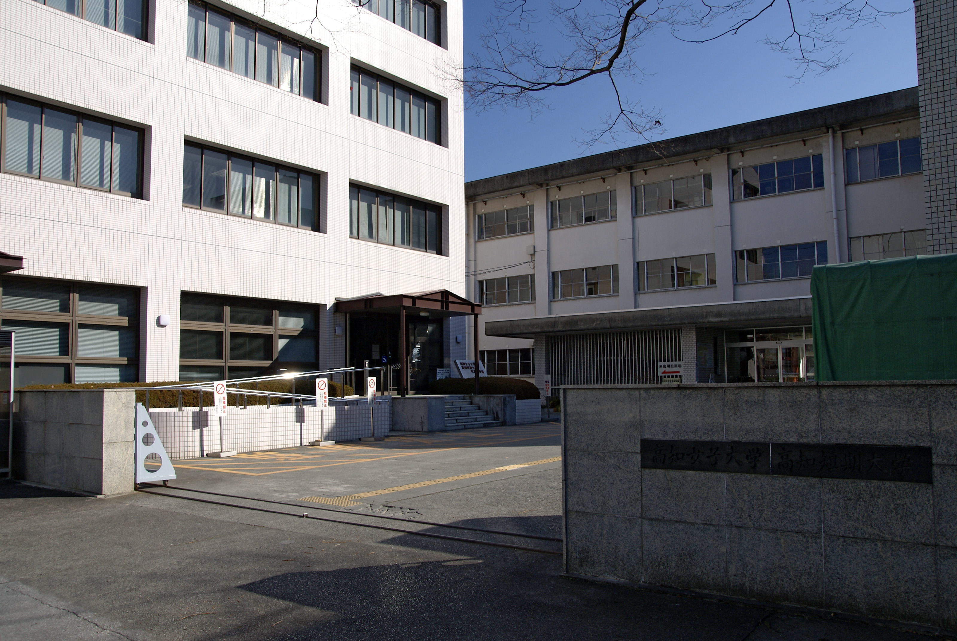 University of Kochi (Former Kochi Women's University) in Kochi, Kochi prefecture, Japan